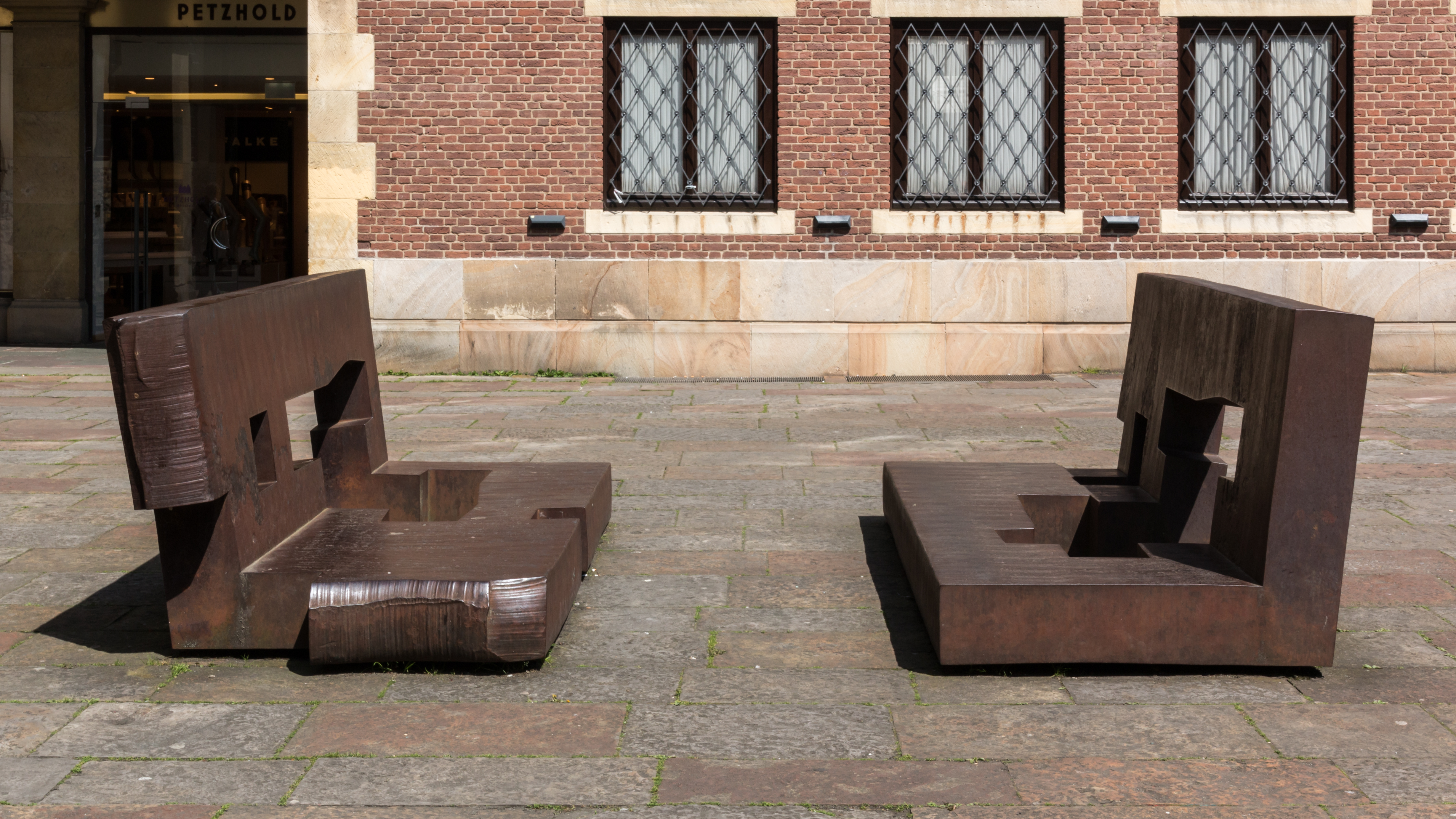 Sculpture “Toleranz durch Dialog” (Eduardo Chillida, 1993) at Platz des Westfälischen Friedens (City Hall courtyard), Münster, North Rhine-Westphalia, Germany Sculpture TitleToleranz durch DialogArtistEduardo ChillidaDate1993